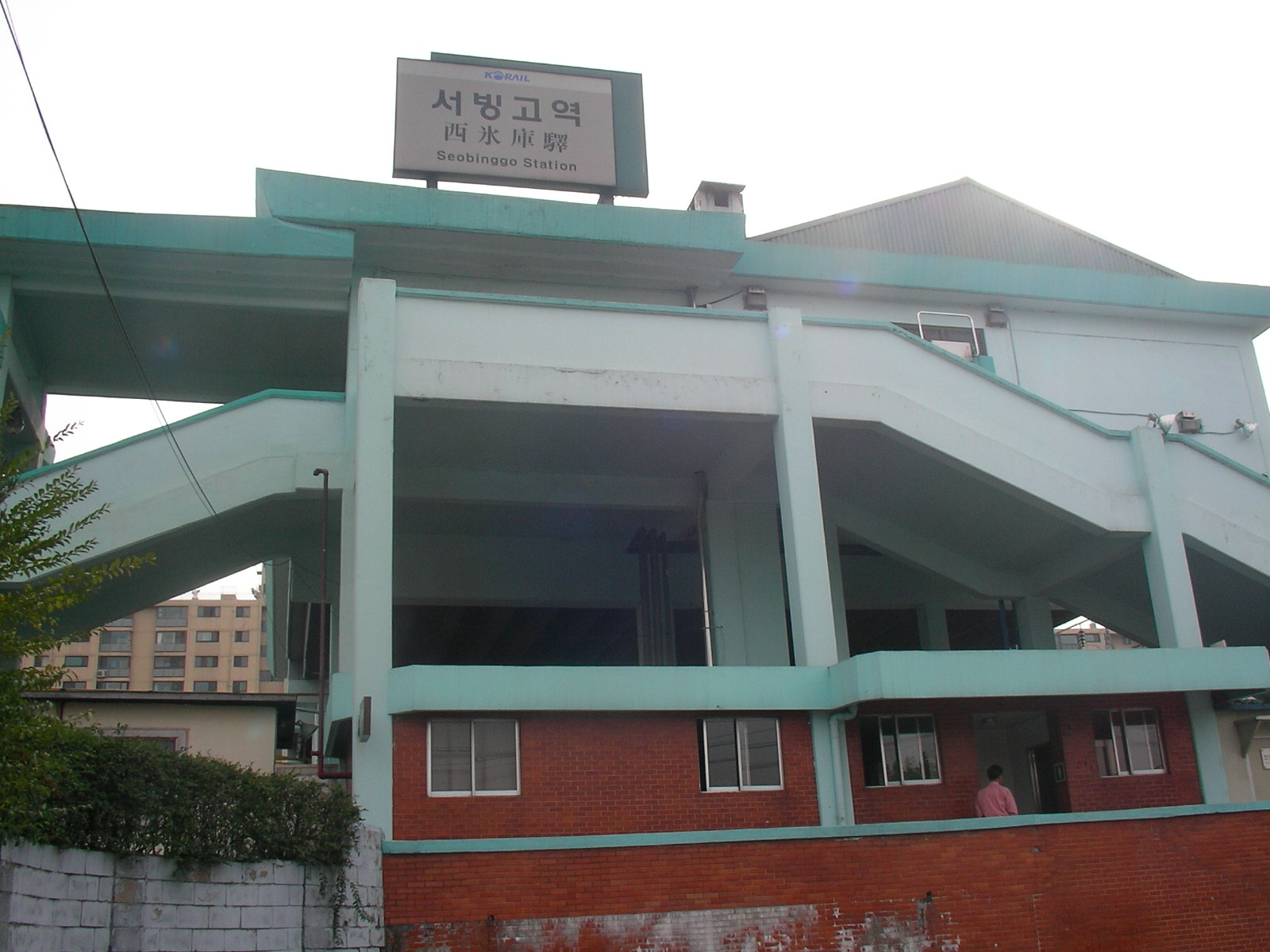 Seobingo Station